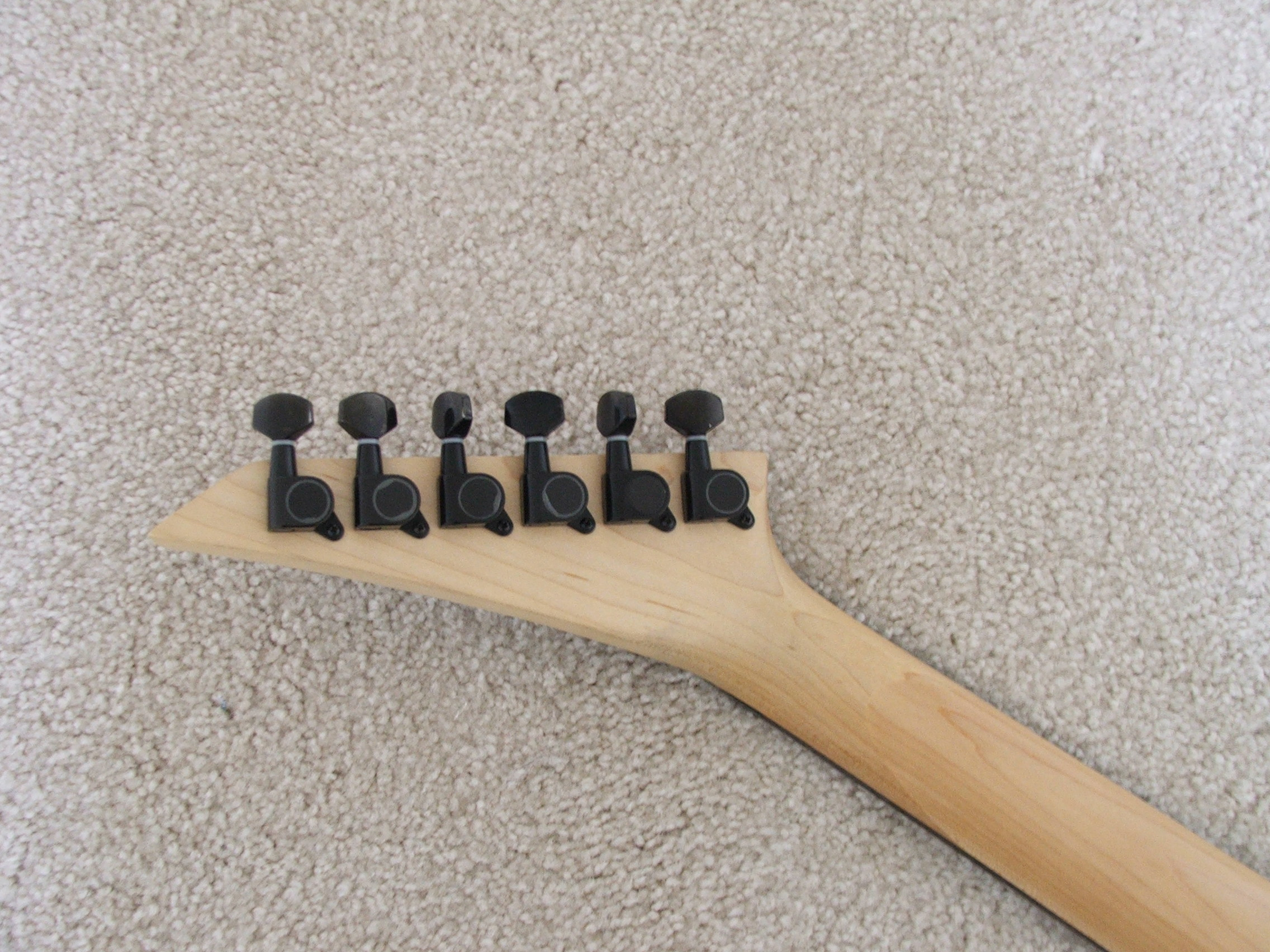 Jackson Randy Rhoads JS20 electric guitar, made in 1999.